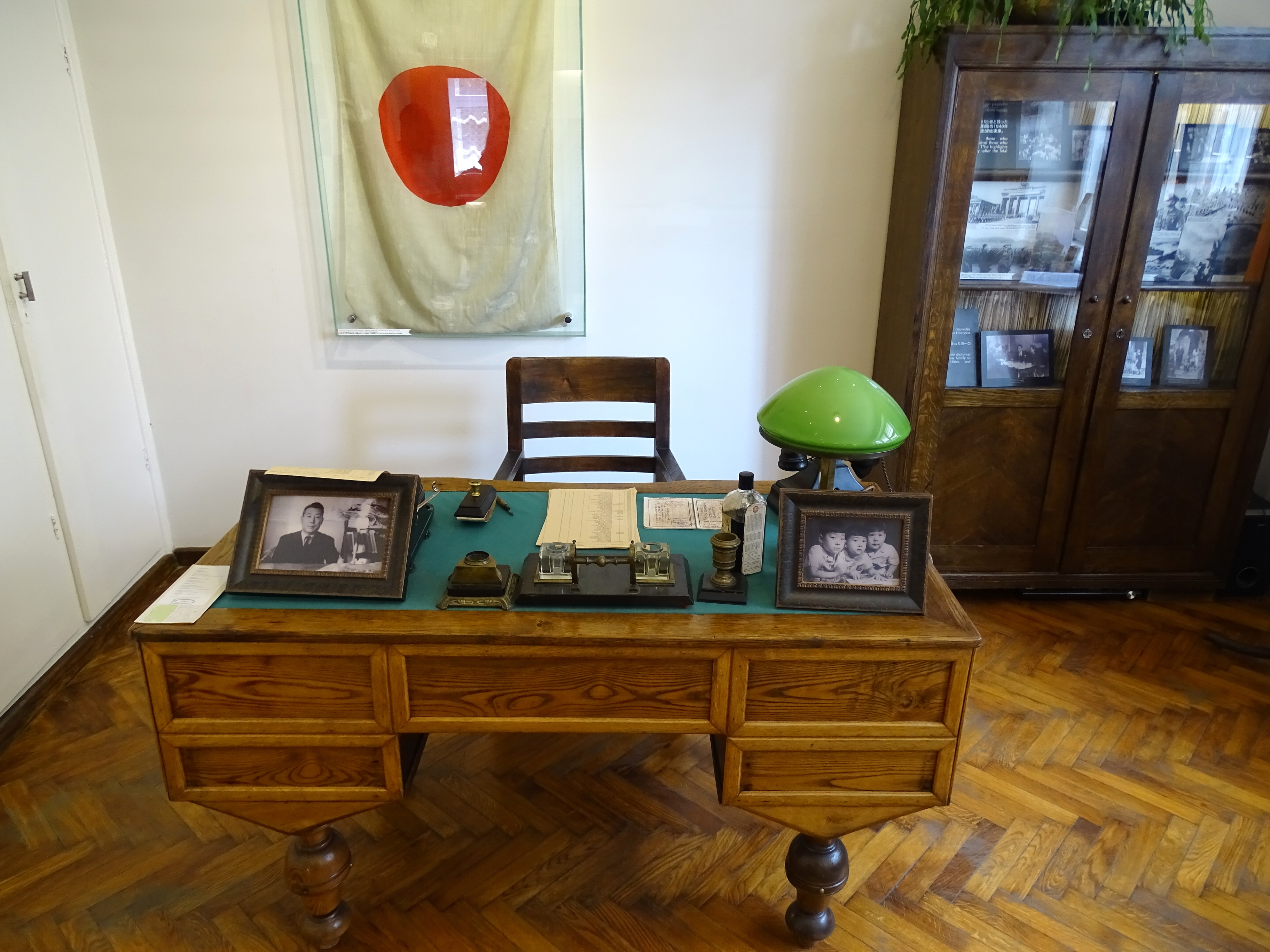 Former Japanese Consular Office with Original Consular Flag in Kaunas, Lithuania.